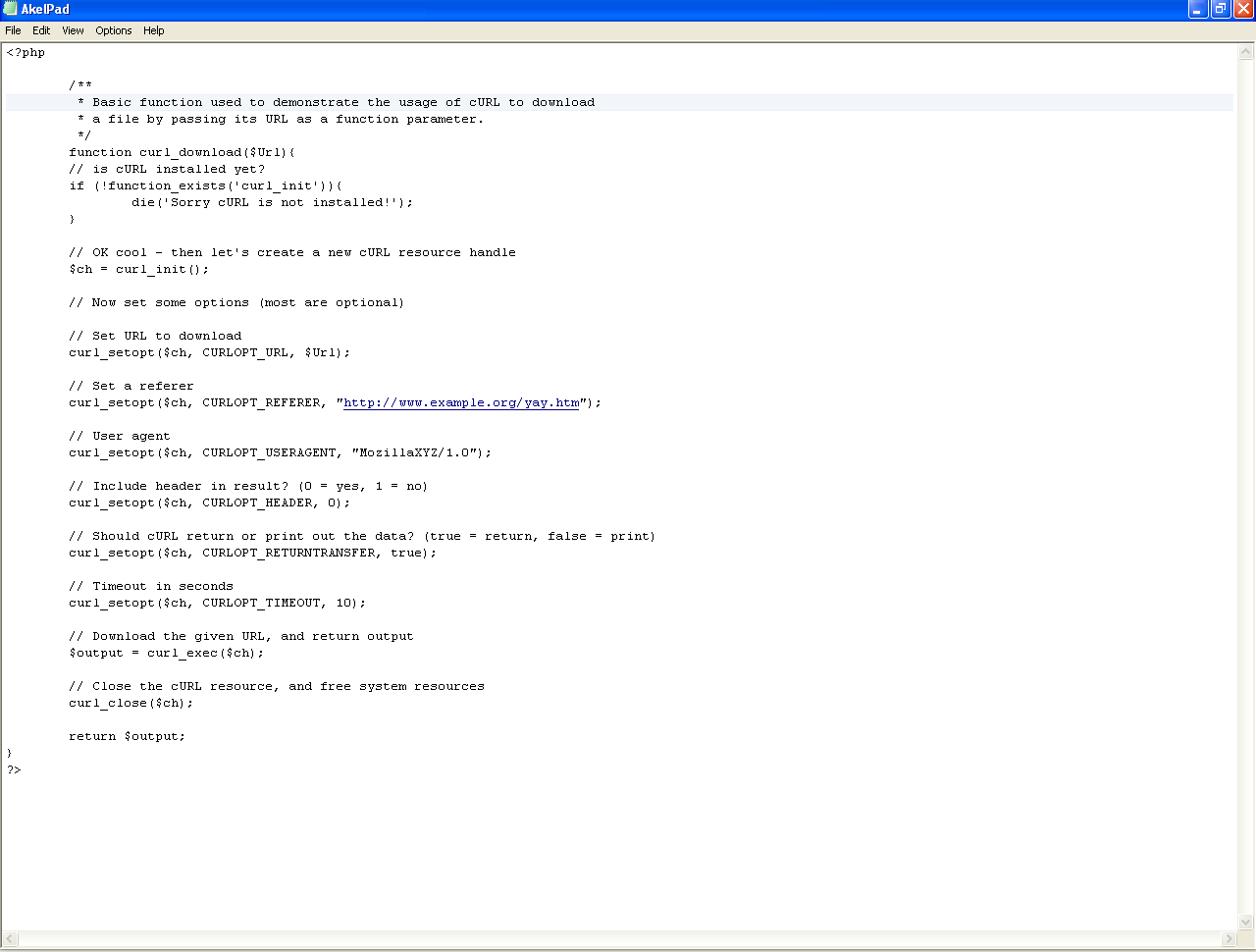 Screenshot for AkelPad text editor